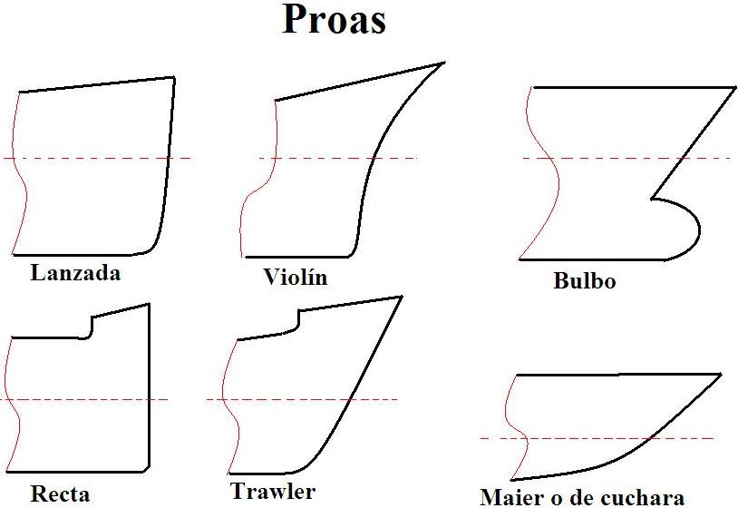 Different prow of ship